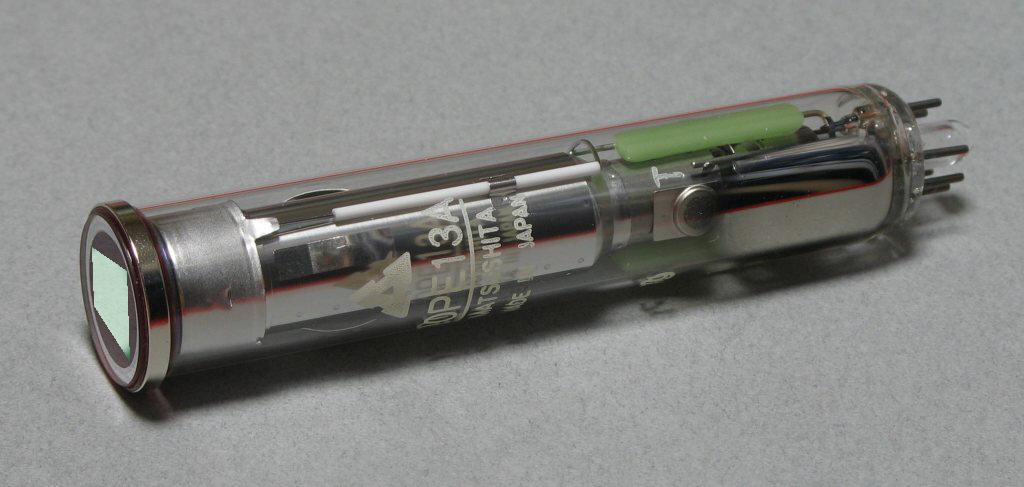 Photograph of a vidicon vacuum tube, 2/3 inch in diameter. Croped & resized.